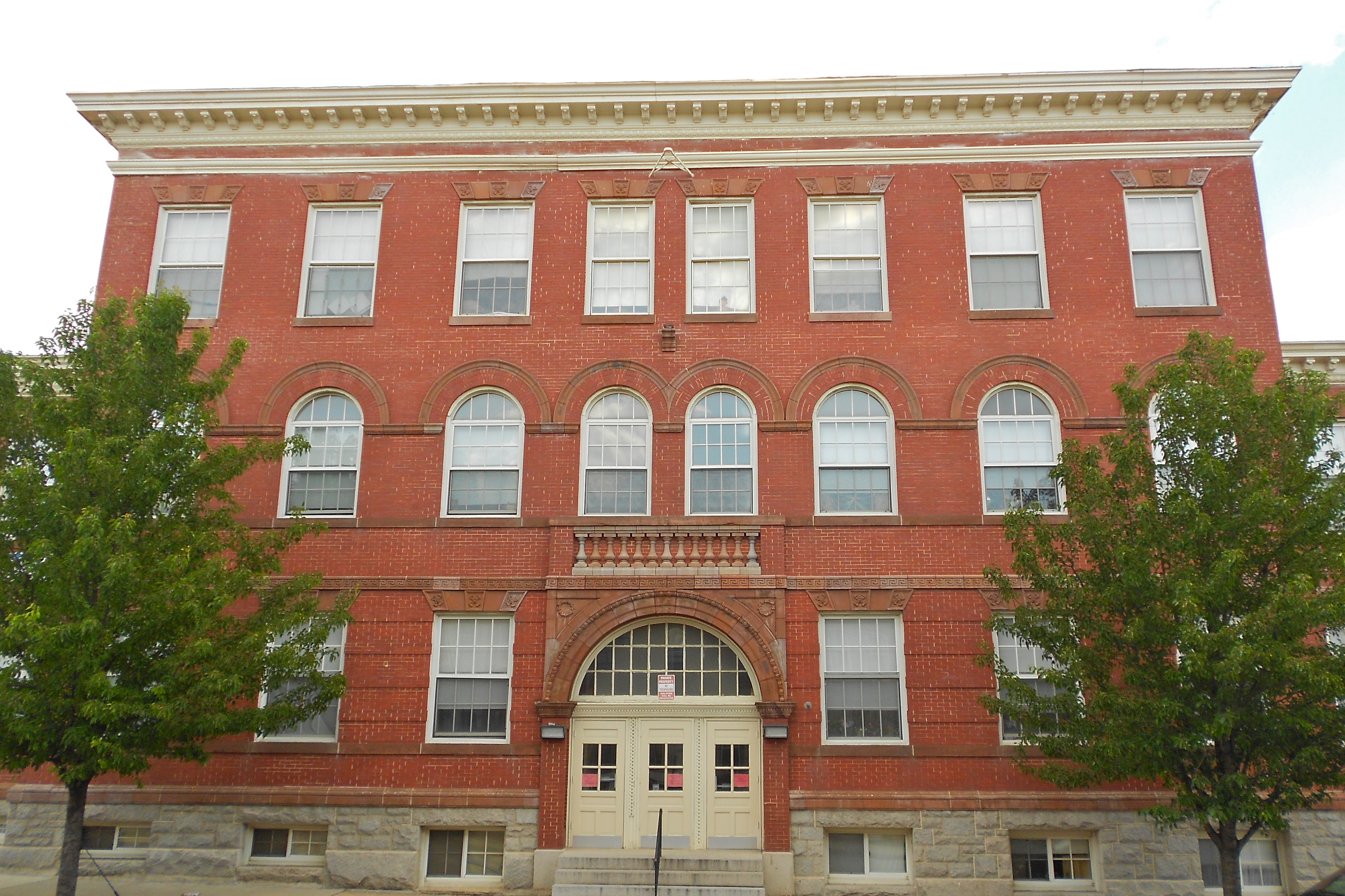 Historical building in west Baltimore (bad connection and running out ofbattery) will completedescriotion later